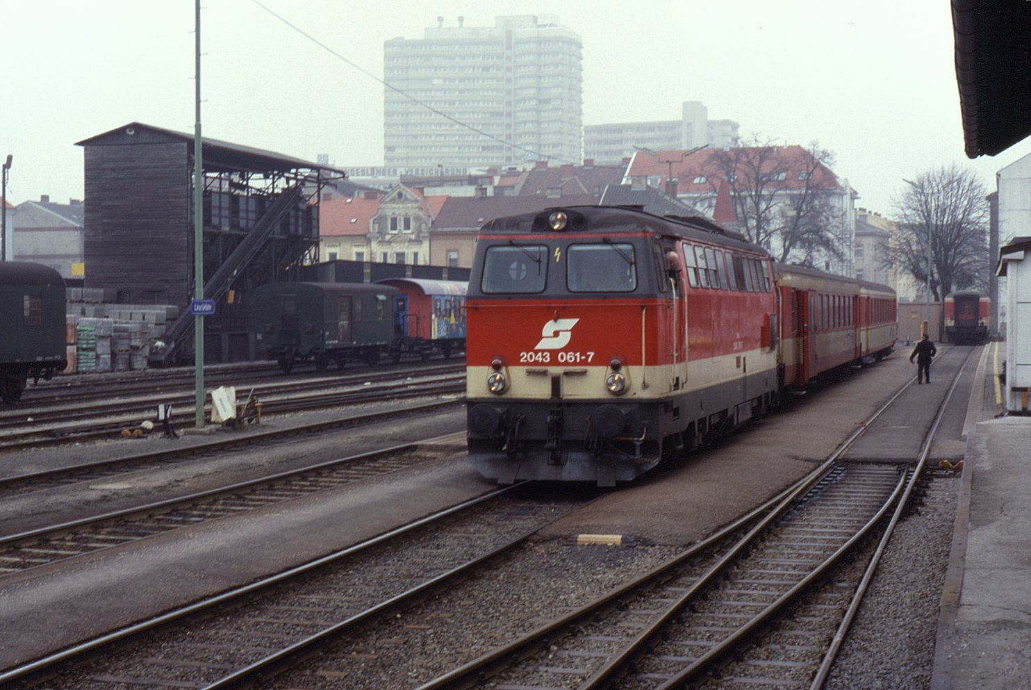 An unusual branch operation from Linz to Aigen-Schlägl (Mühlkreisbahn) starts at Urfahr station on the opposite side of the Donau (river Danube) in Linz. The branch is connected for freight and empty stock movements, hence it appears isolated on any passenger system map. Taken on 9 February 1992, 2043.061 is seen at the start of its journey hauling train 3856, 14:00 Linz Urfahr to Aigen-Schlägl.